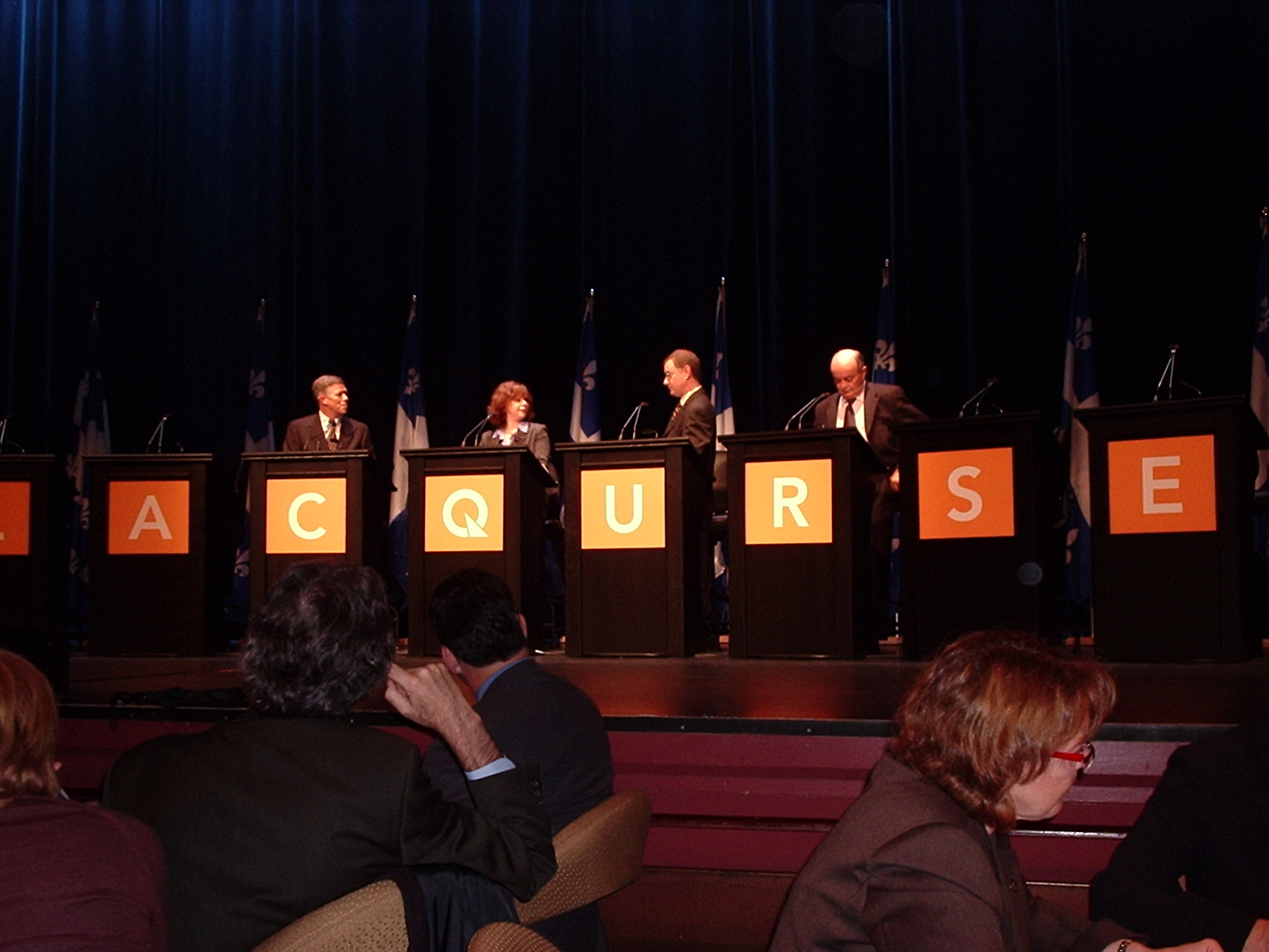 Audience of the public debate at the Capitole of Quebec City, during the Parti Québécois leadership election, 2005. Taken by Benoît Rheault, Liberlogos.